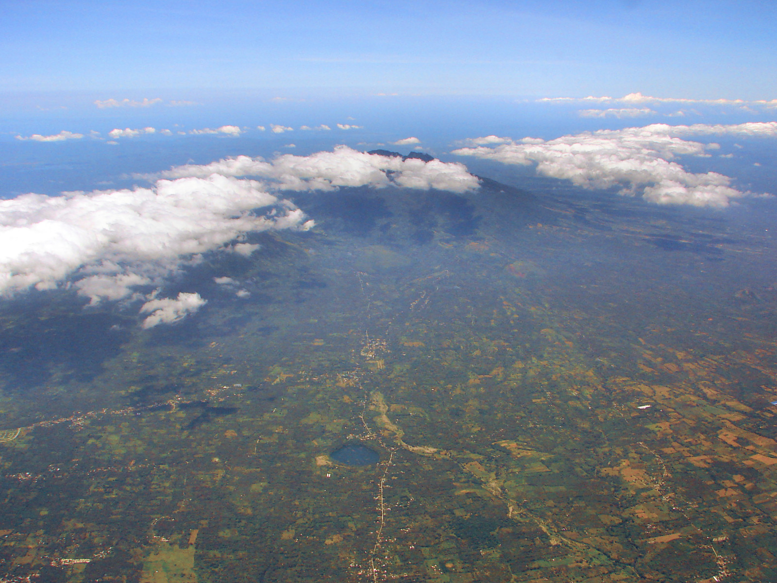 Mount Banahaw (with Dolores in foreground), Quezon, Philippines